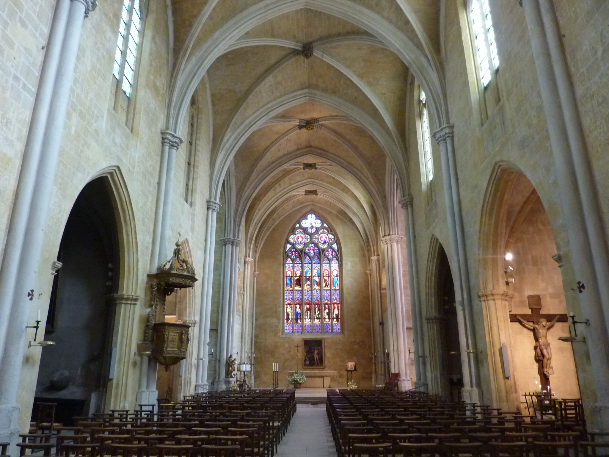 Interior of église Saint-Jean-de-Malte (Aix-en-Provence)